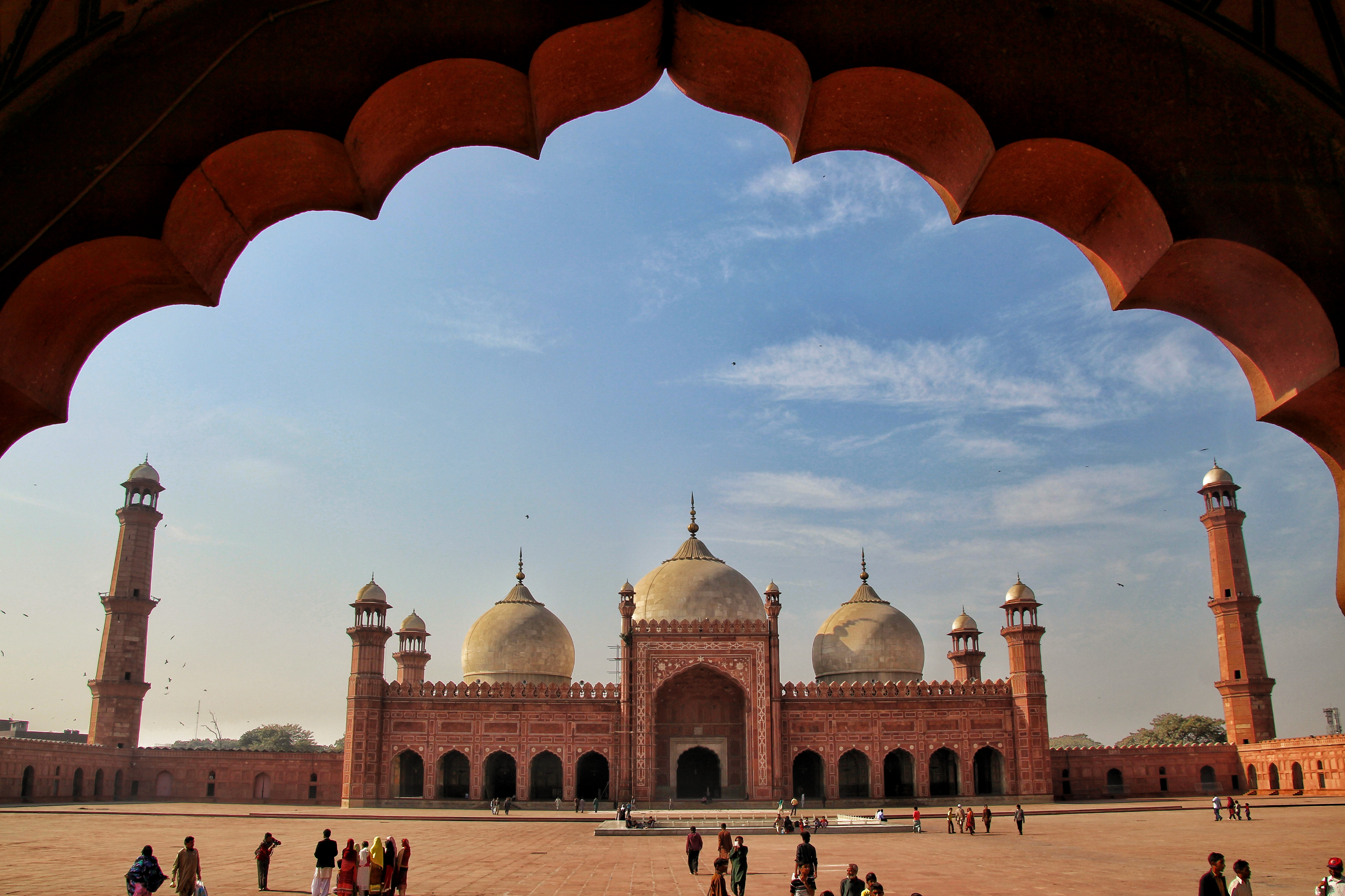 Badshahi Mosque (King’s Mosque) This is a photo of a monument in Pakistan identified as the PB-44